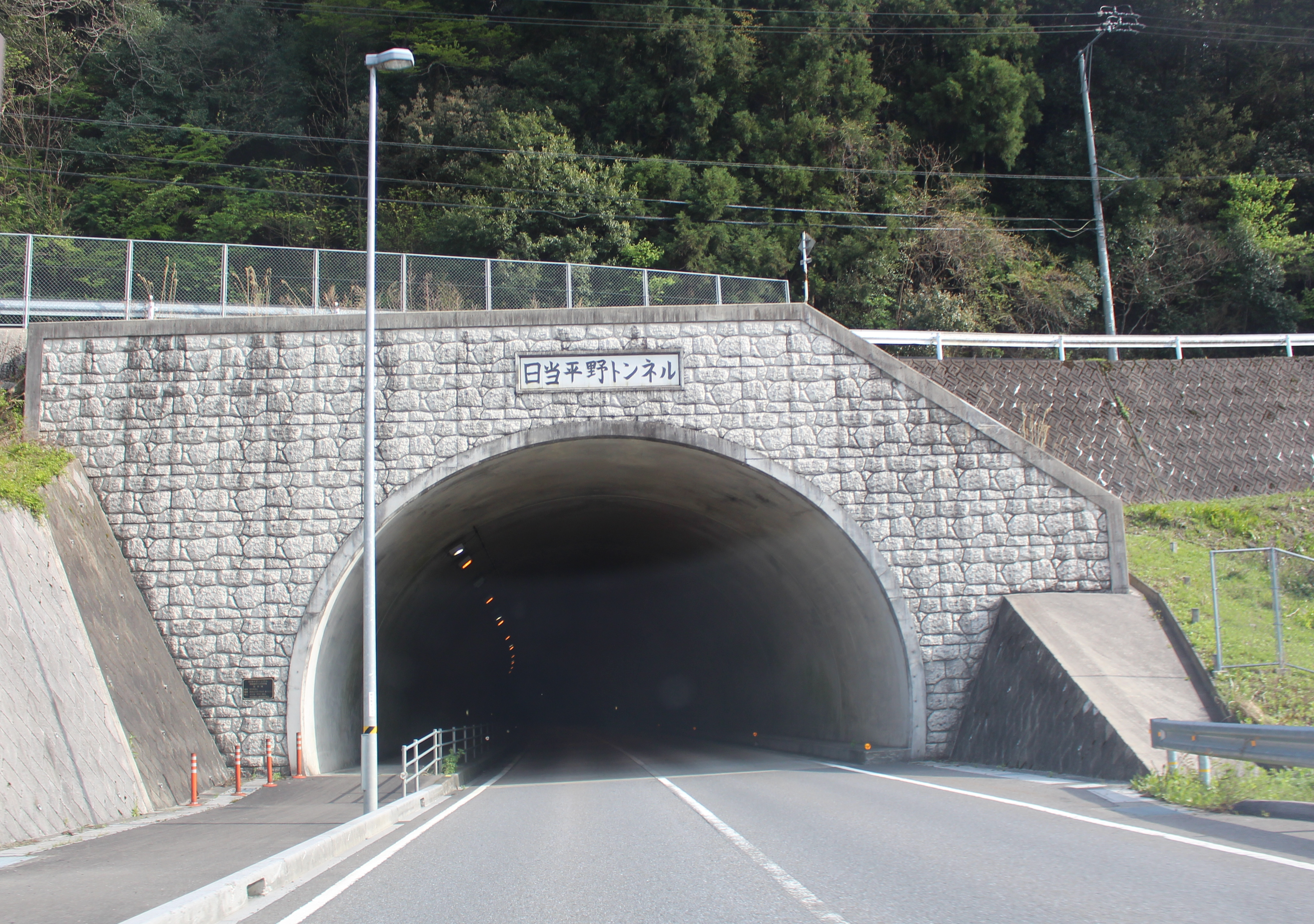 Hinatahirano Tunnel of Route 157 in Neohirano, Motosu, Gifu prefecture, Japan.